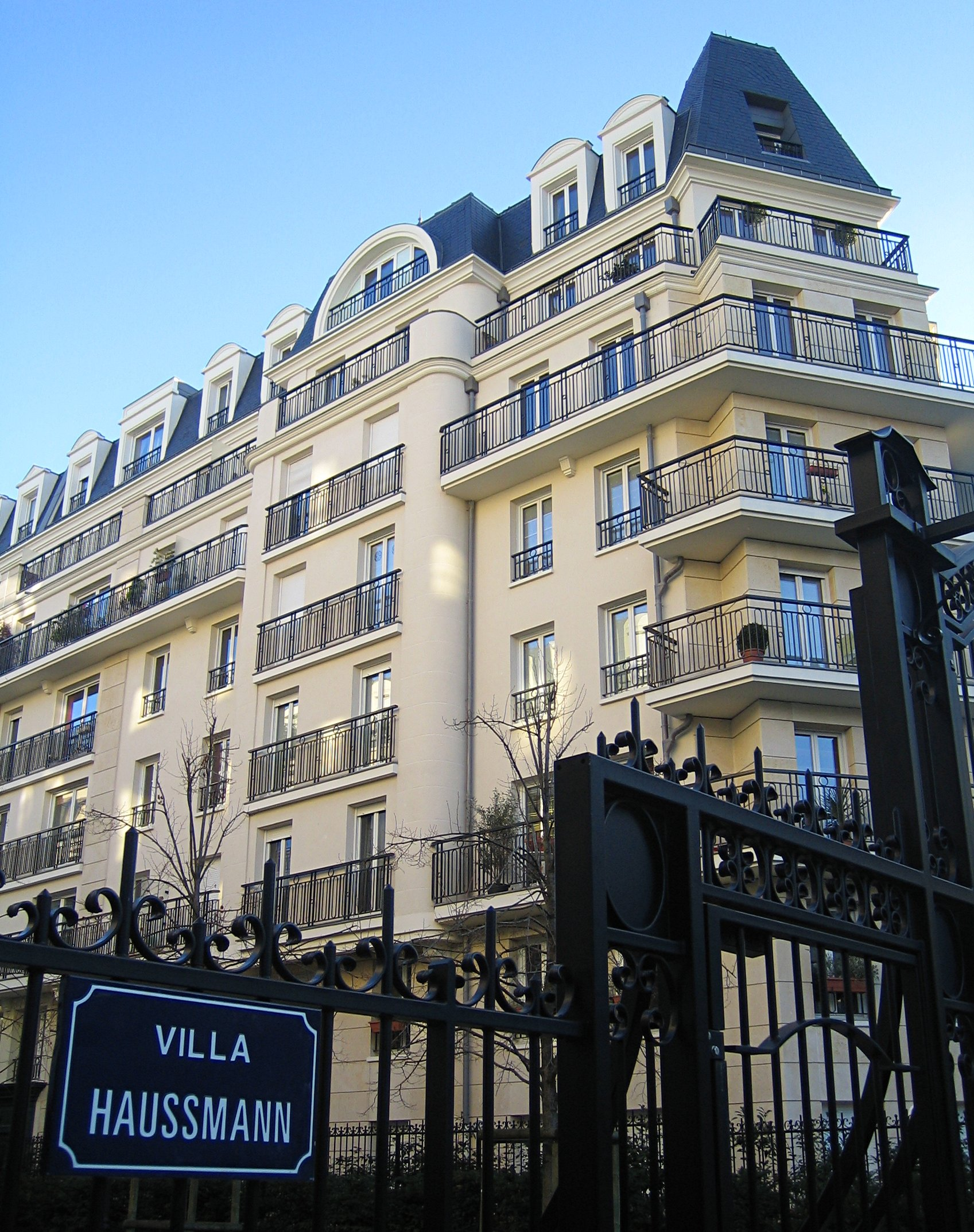 Quartier haussmannien (modern copy of haussmannian architecture) in Issy-les-Moulineaux near Paris.